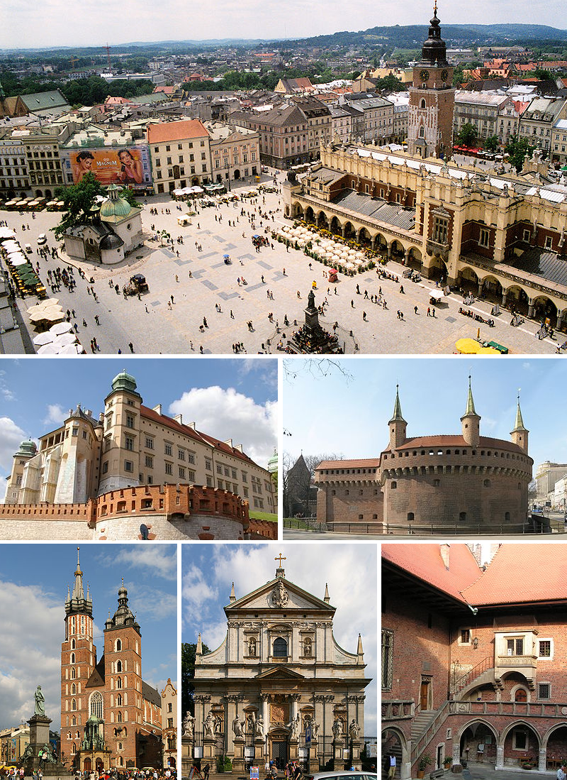 Collage of views of Cracow. Top: Main Market Square, Middle left: Wawel Castle, Middle right: Barbican, Bottom left: St. Mary's Basilica, Bottom centre: Church of SS. Peter and Paul, Bottom right: Collegium Maius.